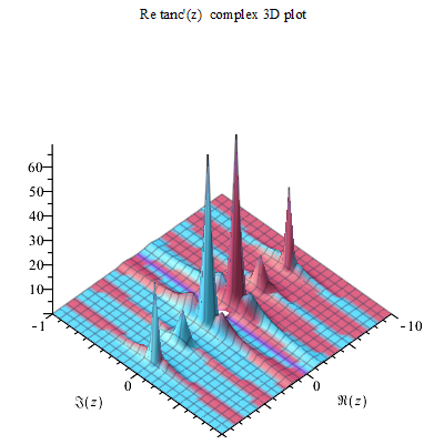 Tanc'(z) Re complex 3D plot